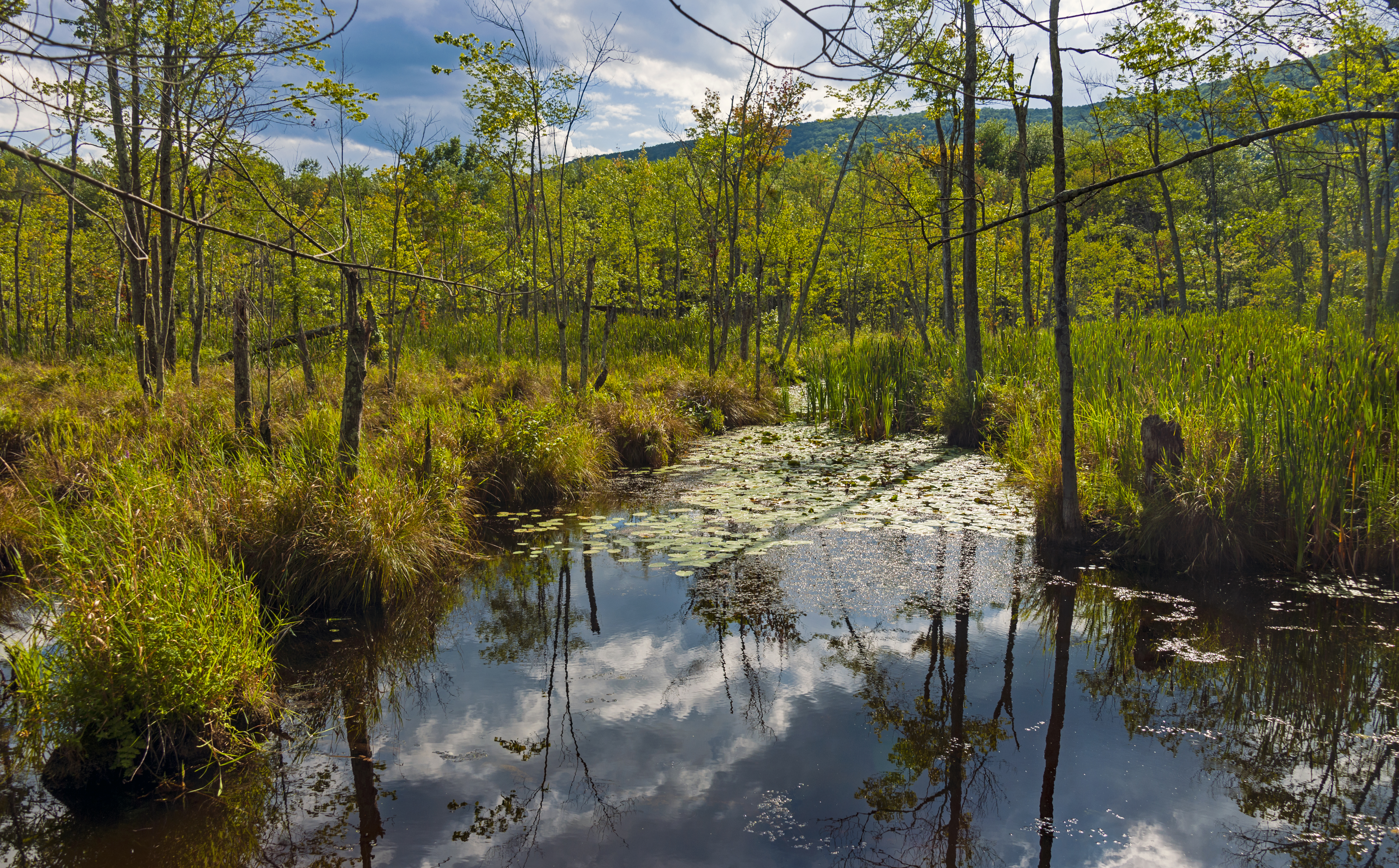 Wappinger Creek flows out of Thompson Pond in Pine Plains, NY, USA, seen from the footbridge along the trail around the pond.